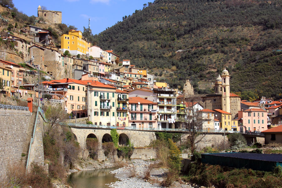 Panorama of Badalucco, Imperia, Italy